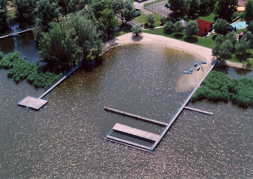 Fadd - Hungary - Europe